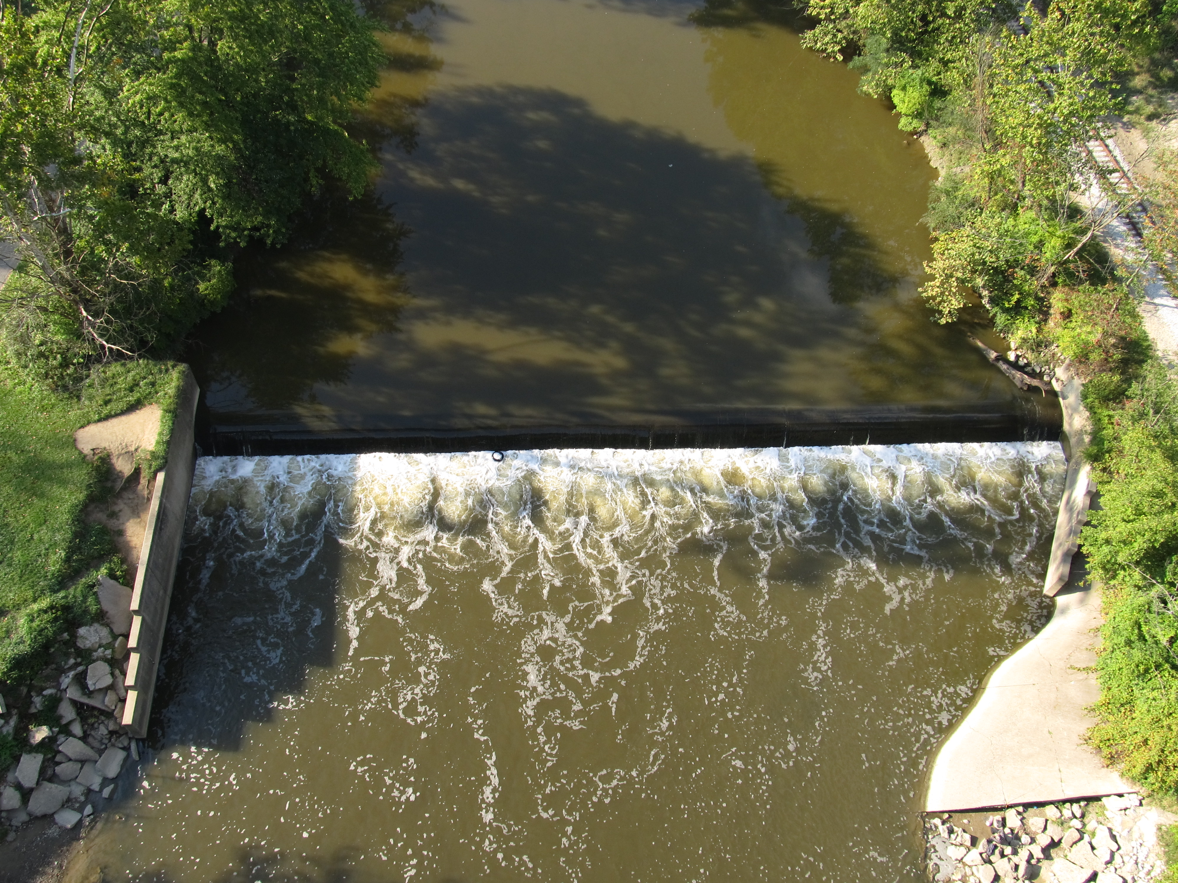 The Cuyahoga River is located in Northeast Ohio in the United States. Outside of Ohio, the river is most famous for being "the river that caught fire", helping to spur the environmental movement in the late 1960s. Native Americans called this winding water "Cuyahoga," which means "crooked river" in the Iroquois language.